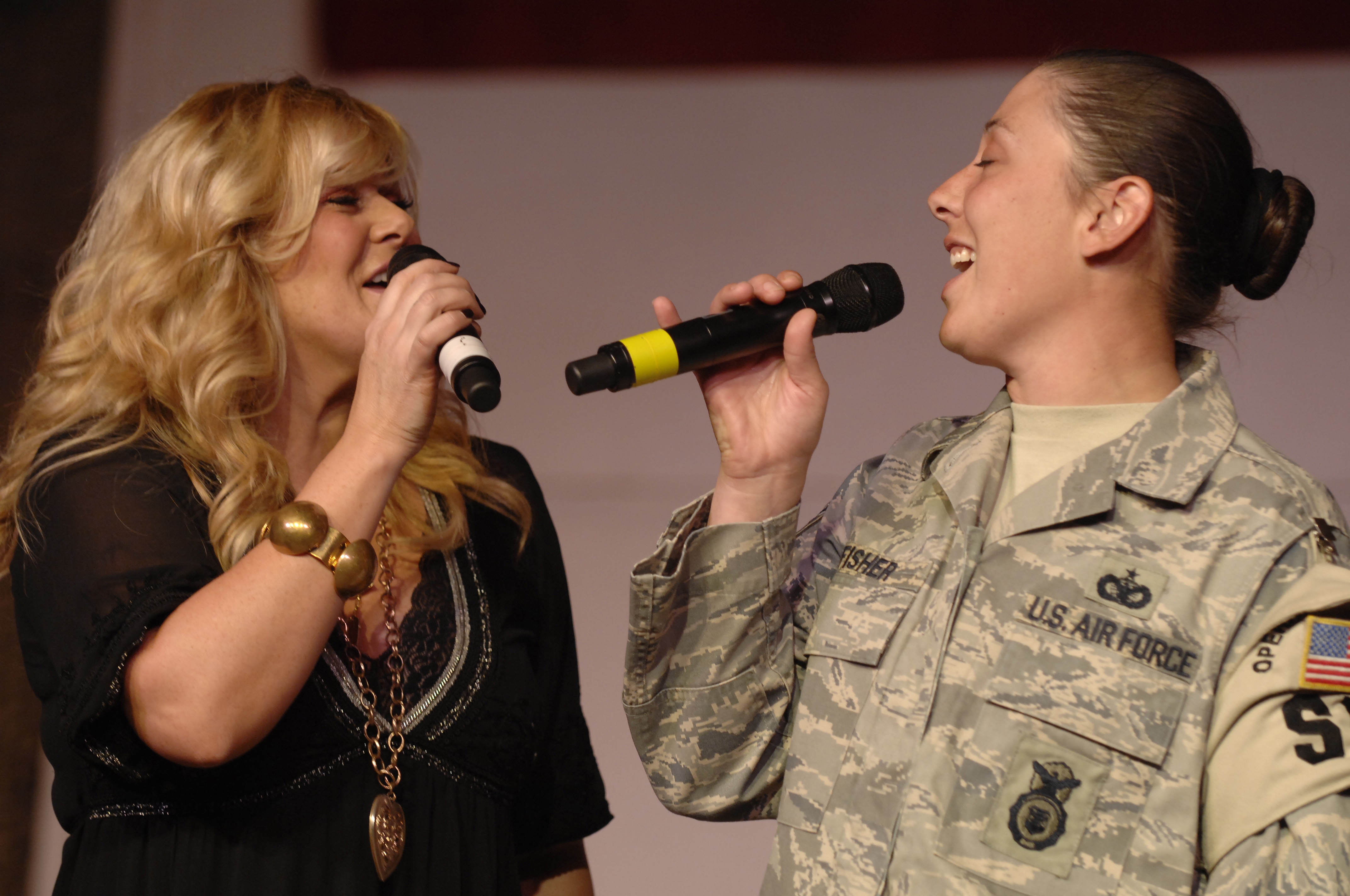 Ali Air Base, IQ - Country music star Jamie O'Neal sings a duet with Staff Sgt. Jennifer Fisher, Nov. 24, during Operation Season's Greetings '07. The Band of the U.S. Air Force Reserve and the U.S. Air Forces in Europe Band, Latin superstar Melina León, country music Jamie O'Neal, comedian Dick Hardwick and six New England Patriot Cheerleaders also entertained the crowd. After the show, the entertainers signed autographs and posed for pictures. Fisher is assigned to the 407th Expeditionary Security Forces Squadron and is deployed from Seymour Johnson Air Force Base, N.C.